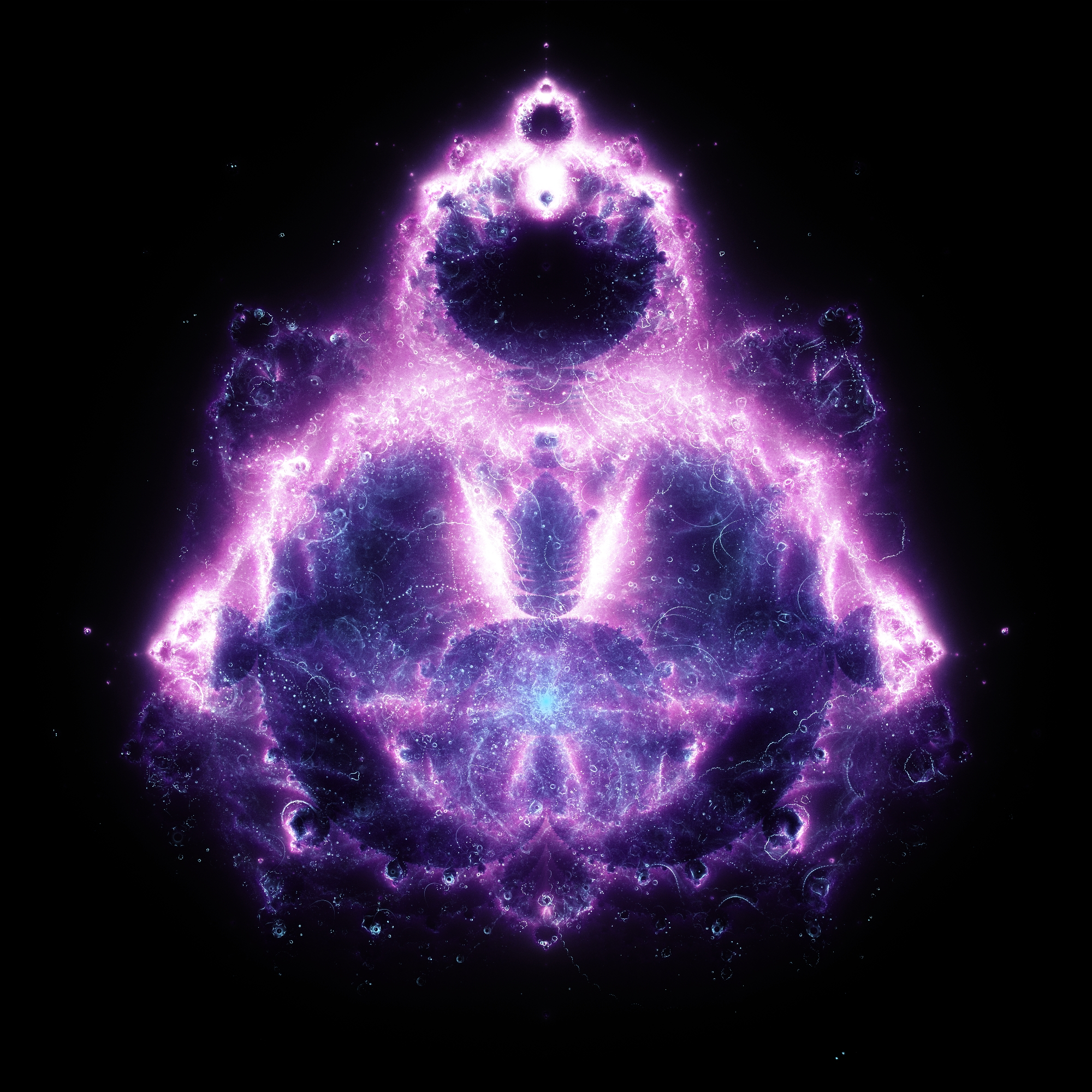 Combined Buddhabrot from 20,000 (purple), 100,000 (blue) and 1,000,000 (white) iterations.